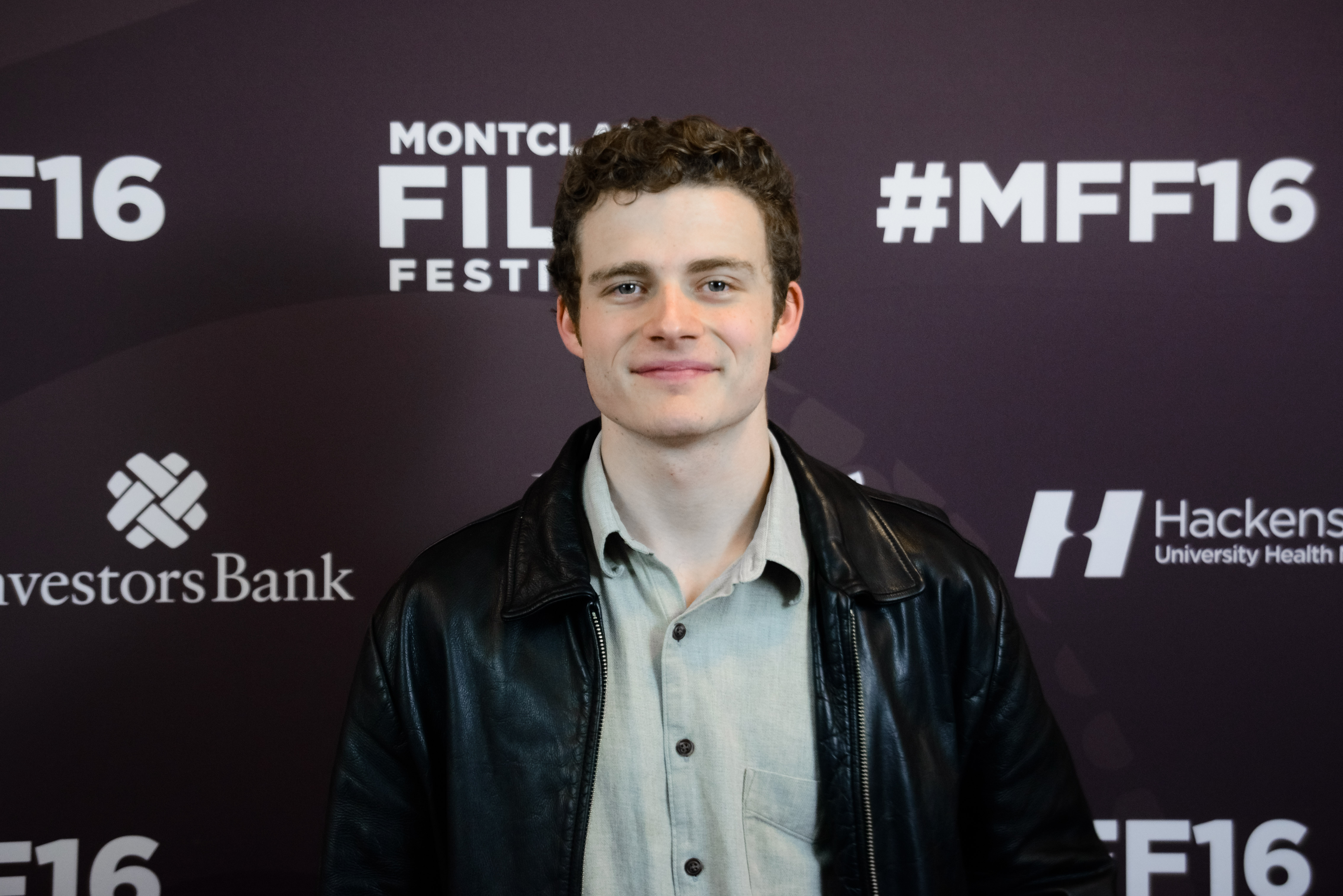 photo by “Neil Grabowsky / Montclair Film Festival”